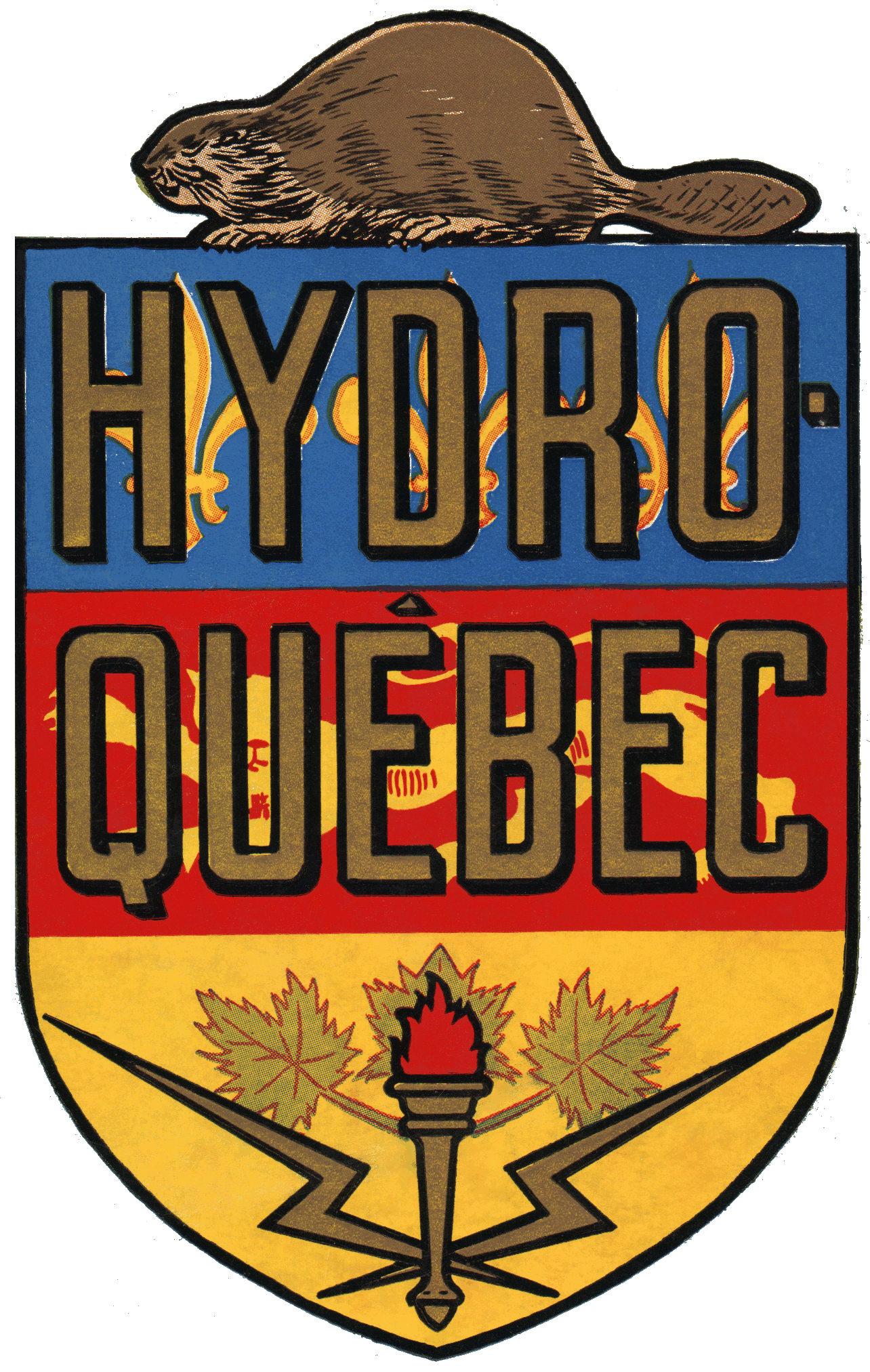 Original logo (1944-1964) of Hydro-Québec, scanned from the 1944 Annual Report of the Quebec Hydro-Electric Commission.